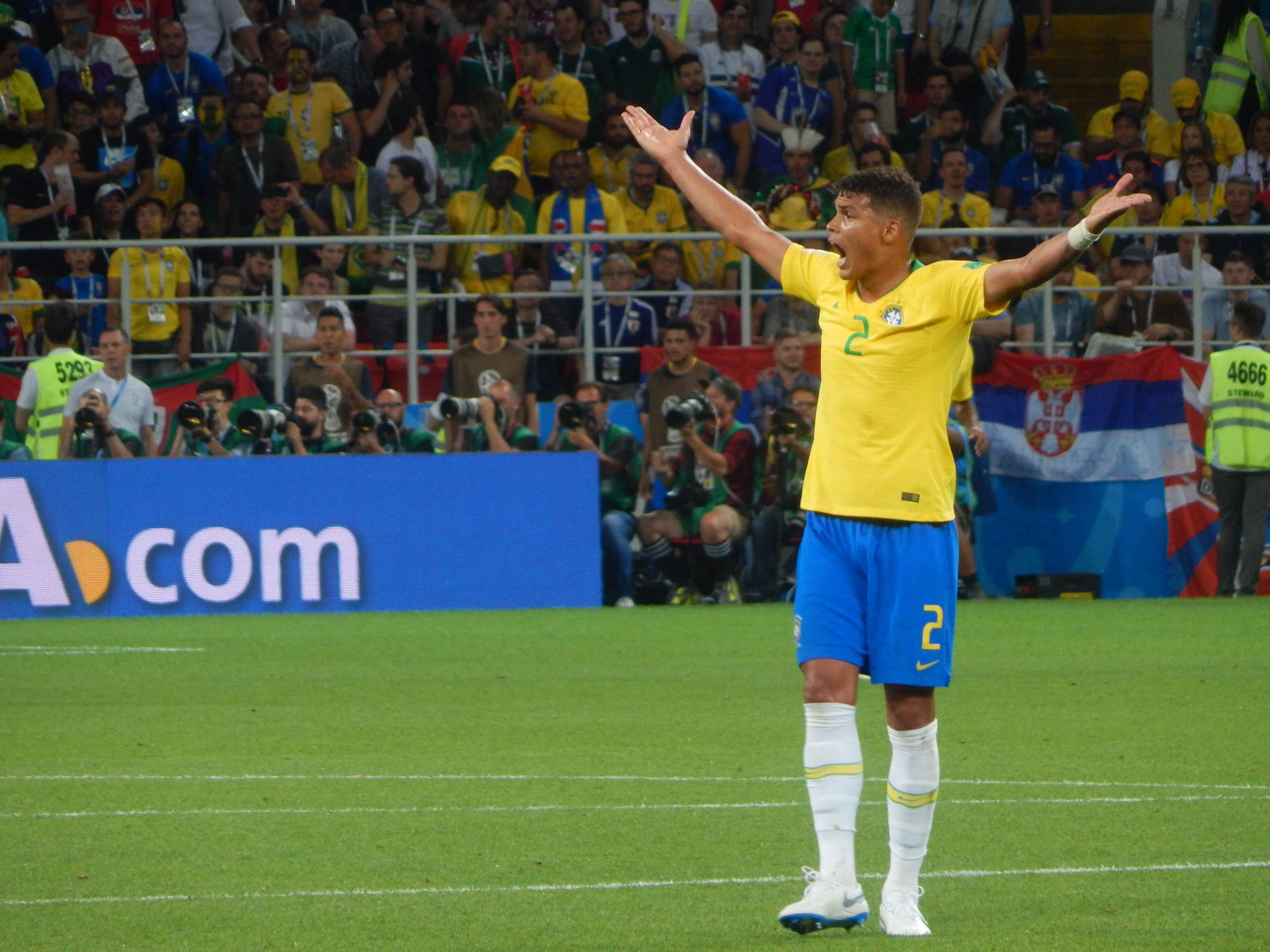 FIFA World Cup 2018, Group E, Serbia vs. Brazil